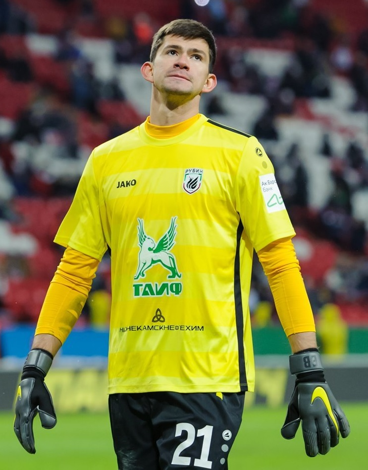 Yegor Baburin with FC Rubin Kazan in a game against FC Rostov.